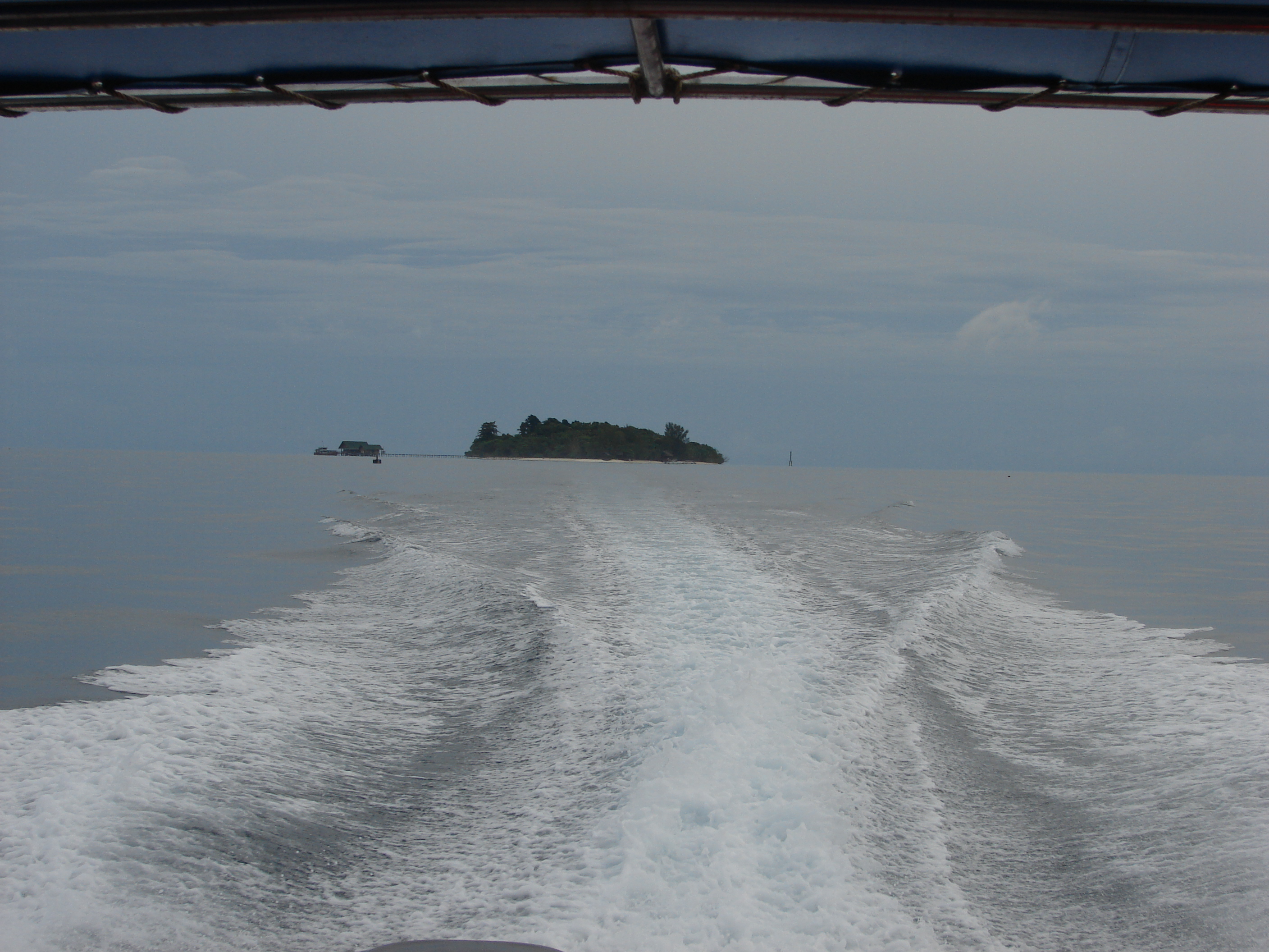 Lankayan Island, Sabah state (Borneo), Malaysia